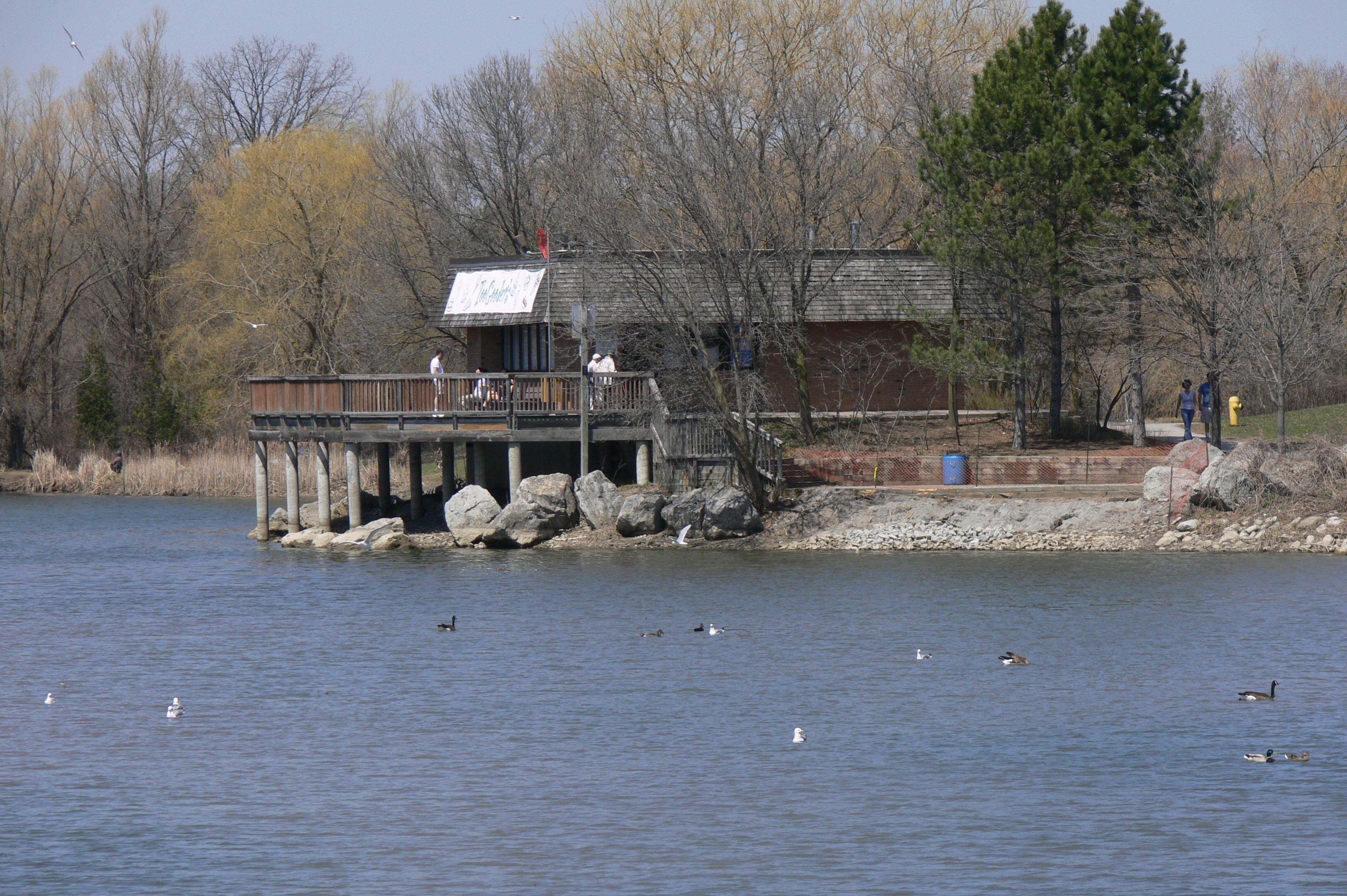 Toogood Pond, Unionville, Ontario